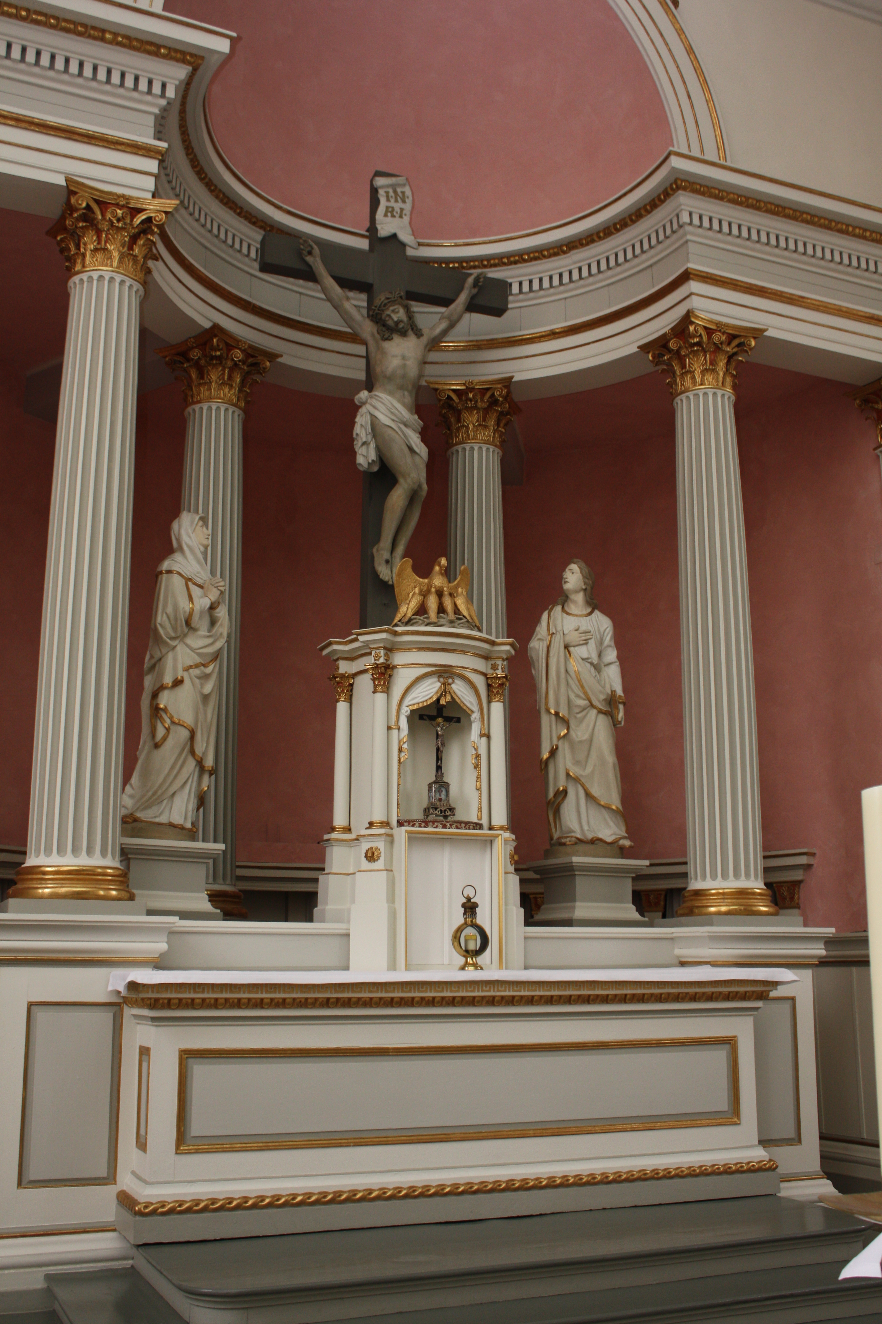 St. Johannes Baptist in Milte This photograph was taken with a Canon EOS 450D.